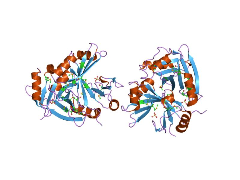 Cartoon representation of the molecular structure of protein registered with 1jc4 code.